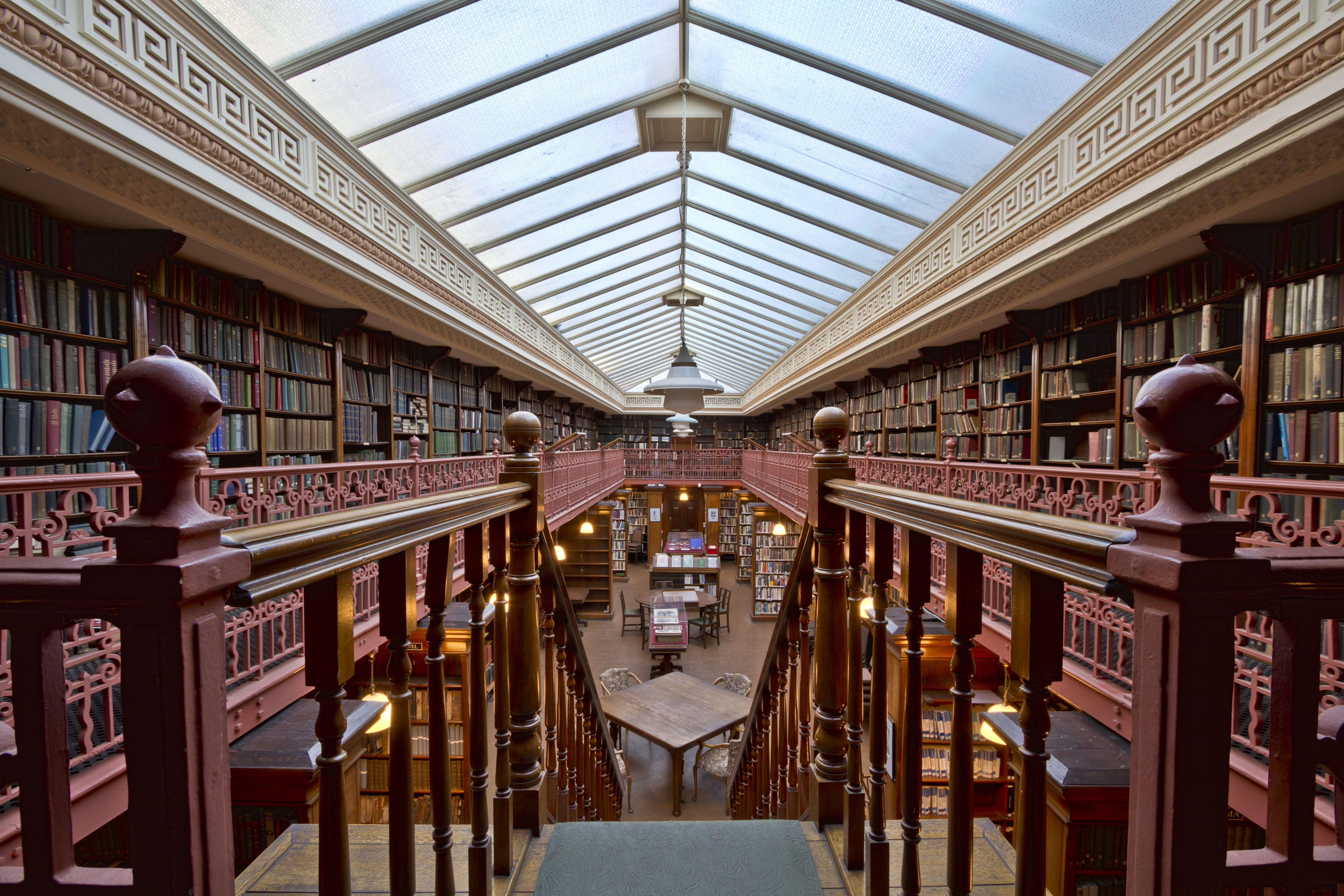 Here is a photograph taken from the Leeds Library. Located in Leeds, Yorkshire, England, UK.